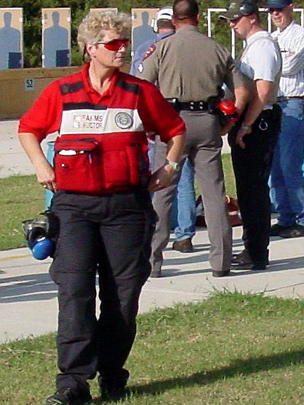 Texas Department of Public Safety Concealed Handgun Instructors training